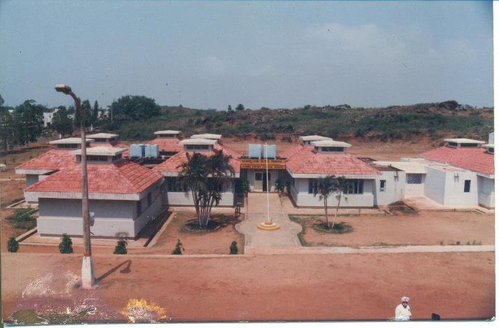 This is the photo of Atomic Energy Central School, Oscom taken in July 2004.